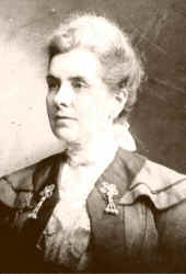 Sarah Lawrence, mother of T. E. Lawrence.